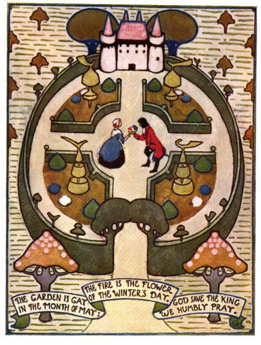 A stylized illustration of a female figure and a male figure in a garden, in front of a castle; the text reads "The garden is gay/In the month of May/The fire is the flower/of the Winter's Day/God Save the King we humbly pray."